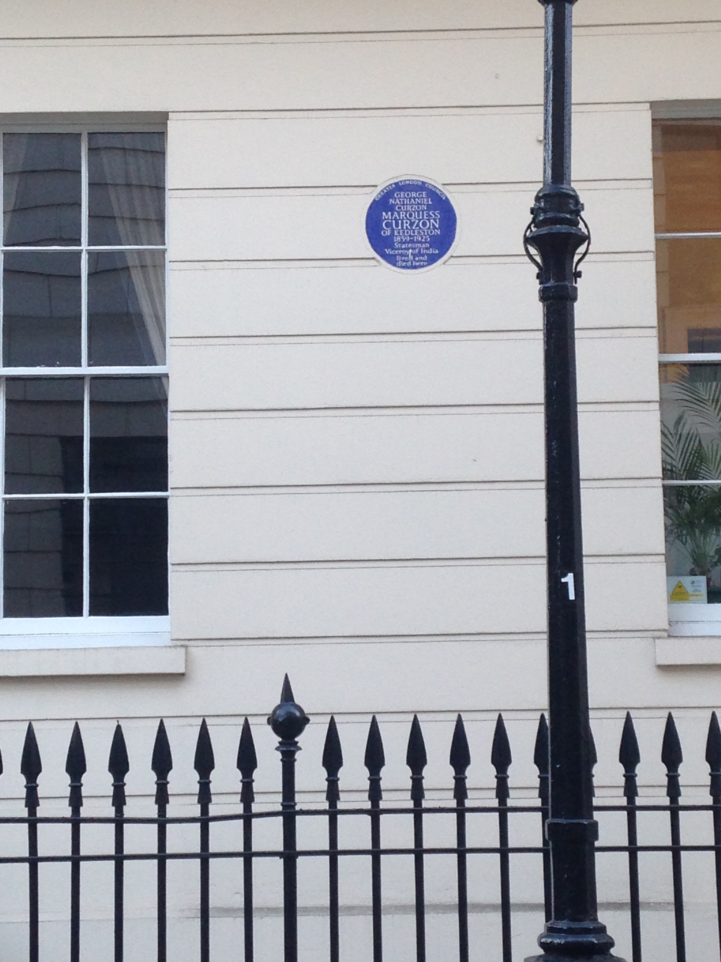 A Greater London Council for at George Curzon, 1st Marquess Curzon of Kedleston at 1 Carlton House Terrace, St James's, London SW1Y 5AF in the City of Westminster.